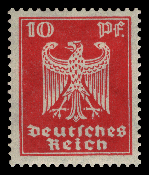 definitive stamp series Reichsadler Graphics by S. v. Weech Ausgabepreis: 10 Pfennig First Day of Issue / Erstausgabetag: März 1924 Michel-Katalog-Nr: 357 (Deutsches Reich)